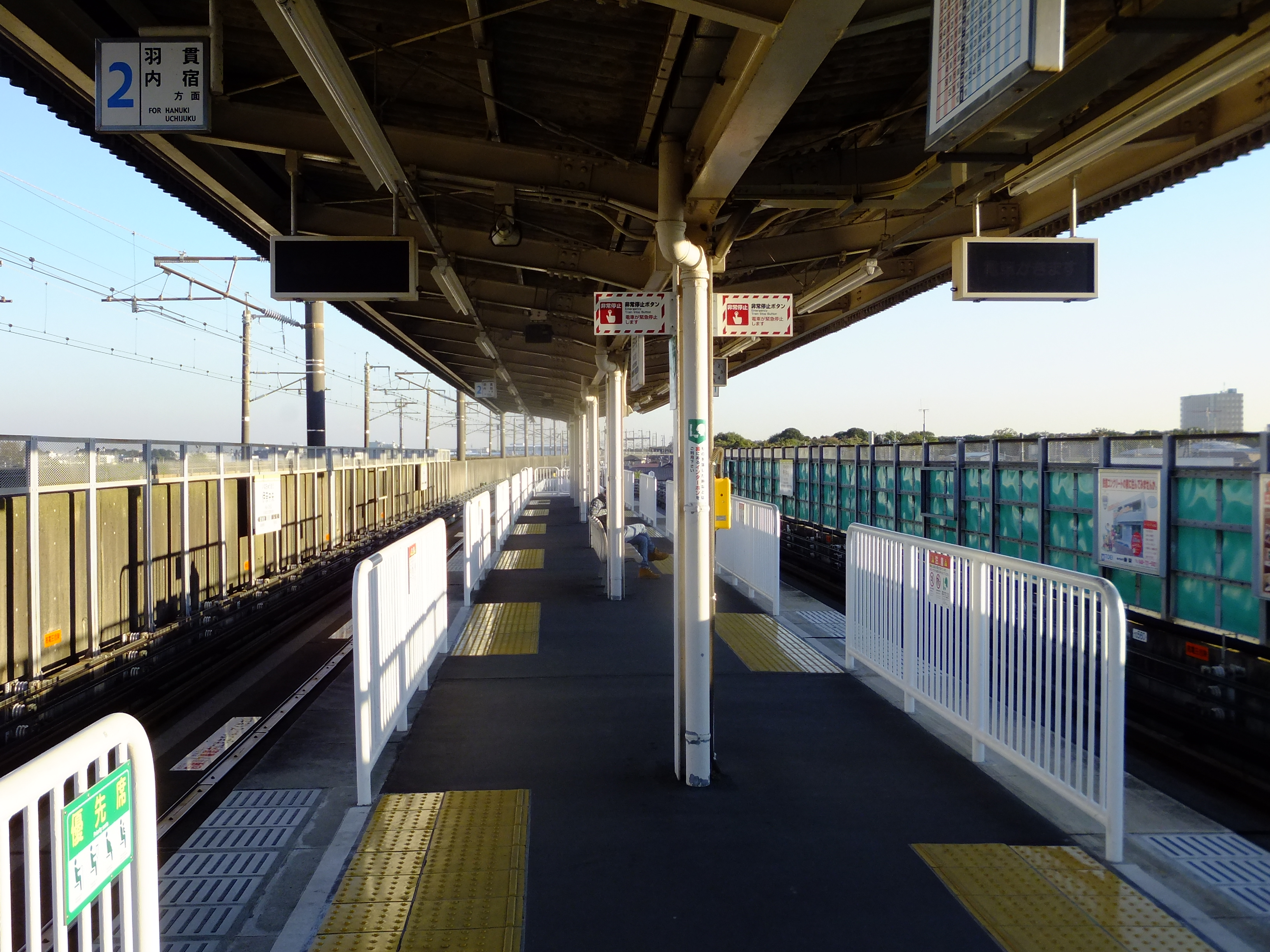 Ina-Chūō Station on the New Shuttle Line, in Ina, Saitama, Japan